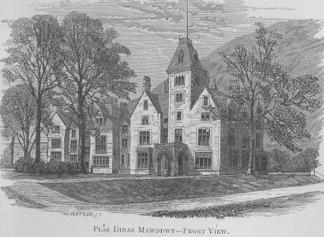 Plas Dinas, Mawddwy, Merionethshire Thomas Nicholls “Annals and Antiquities of the Counties and County Families of Wales, Longmans, London 1872. Vol 2, 656